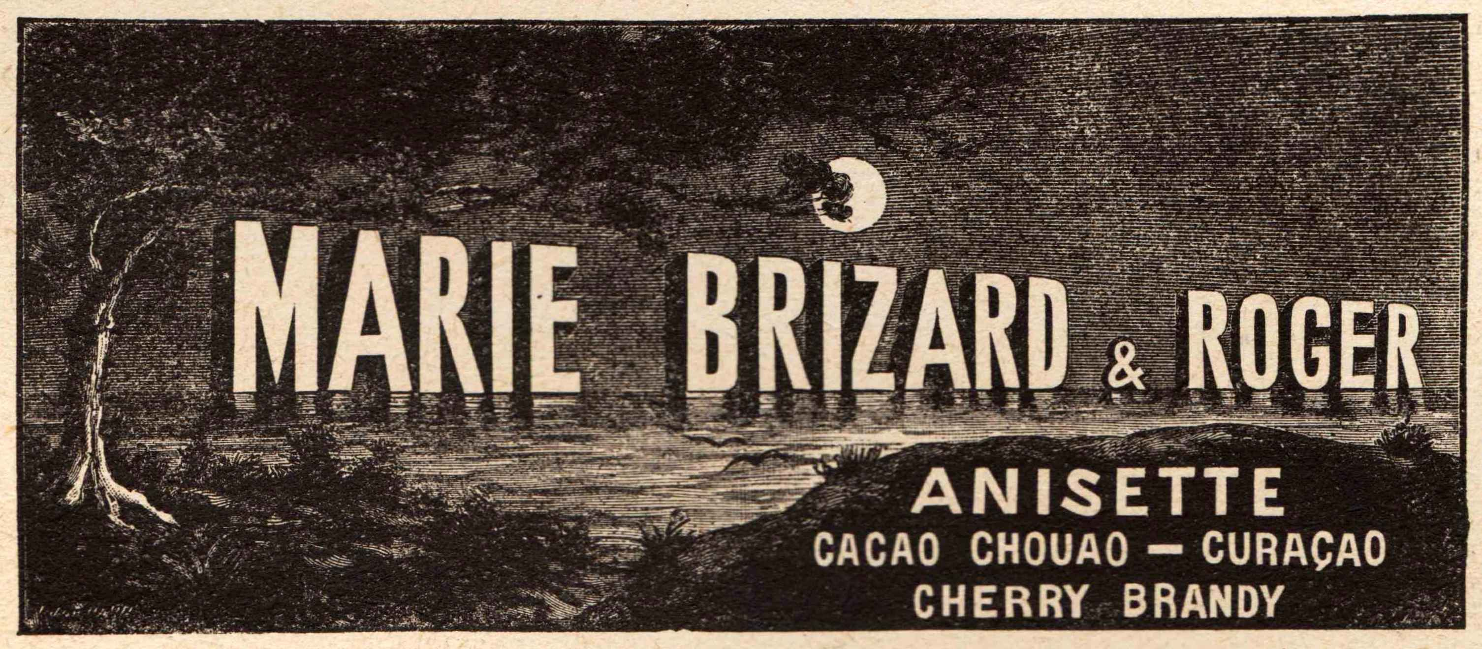 Scan of L'ILLUSTRATION 9 Ferviers 1918 Annonces pages